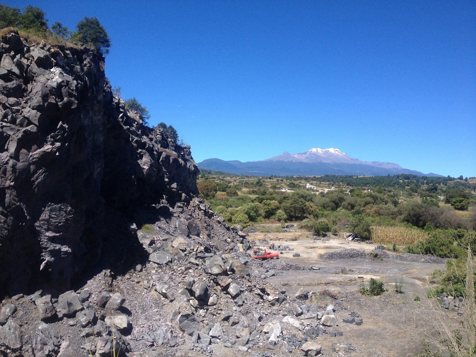 A quarry at the limits of the Nealtican lava flow or Nealtican Malpaís in Puebla, Mexico. In the back, Iztaccíhuatl volcano.